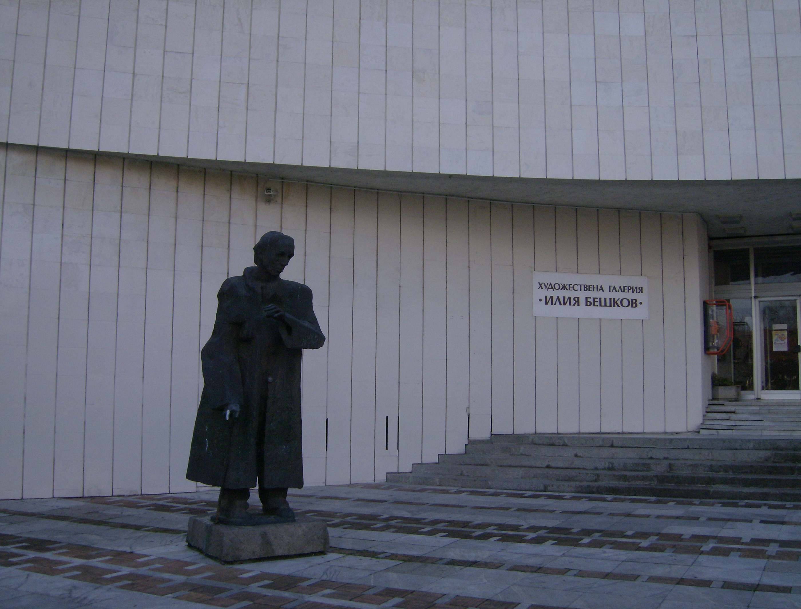 Galery Ilia Beshkov, Pleven